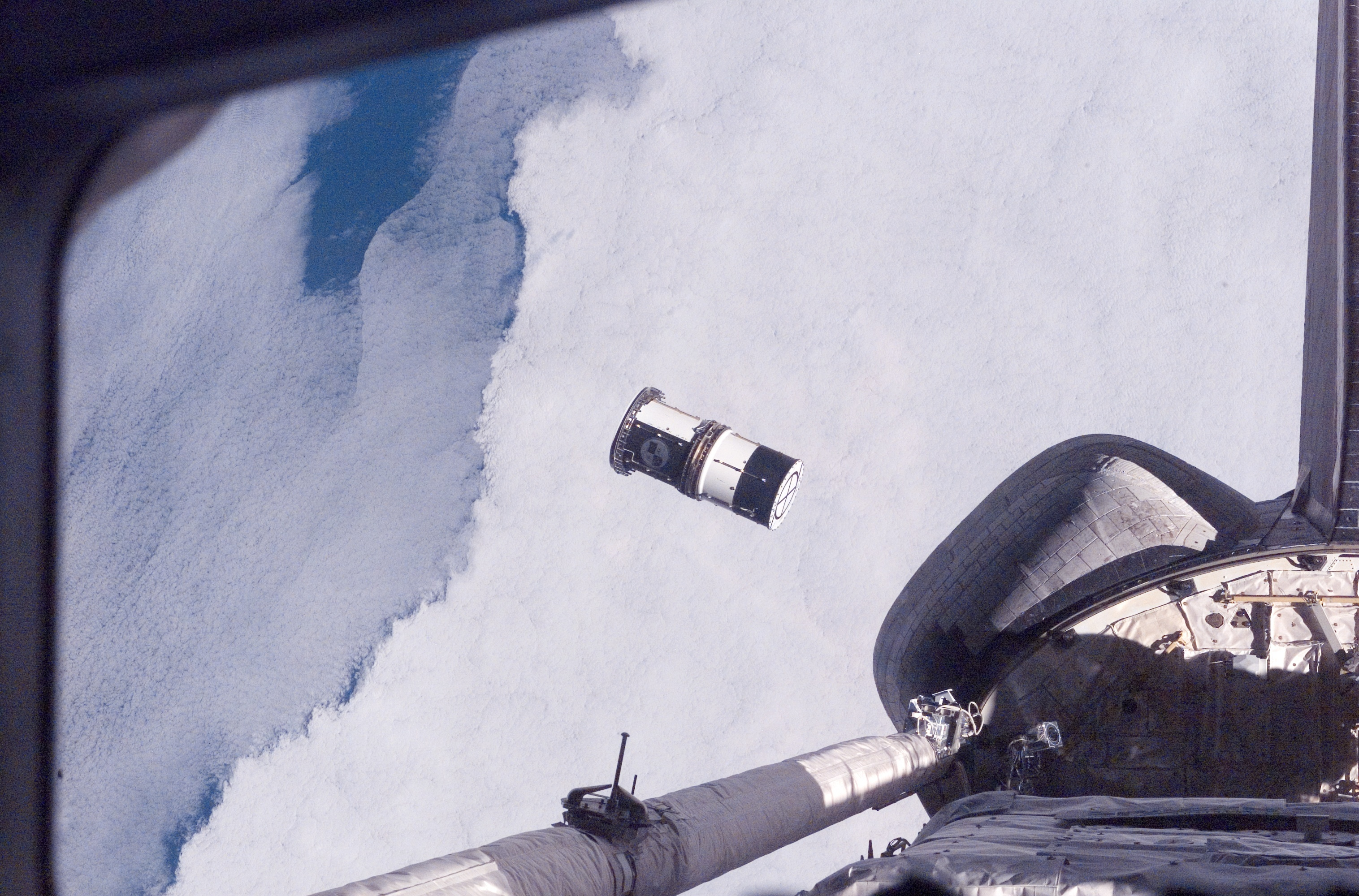 STS-116 Shuttle Mission Imagery S116-E-07828 (21 Dec. 2006) --- As seen through windows on the aft flight deck of Space Shuttle Discovery, a U.S. Department of Defense pico-satellite known as Atmospheric Neutral Density Experiment (ANDE) is released from the shuttle's payload bay by STS-116 crewmembers. ANDE consists of two micro-satellites which will measure the density and composition of the low Earth orbit (LEO) atmosphere while being tracked from the ground. The data will be used to better predict the movement of objects in orbit.